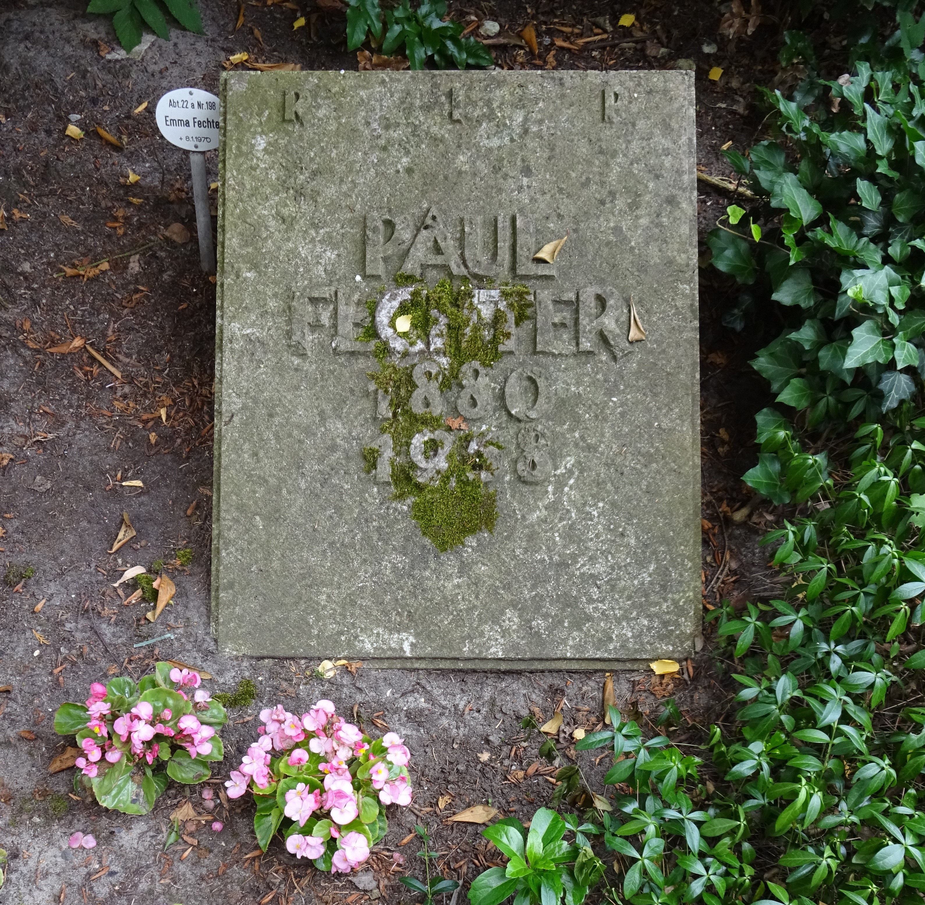 Grave of German writer Paul Fechter in Friedhof Lichtenrade, Berlin-Lichtenrade